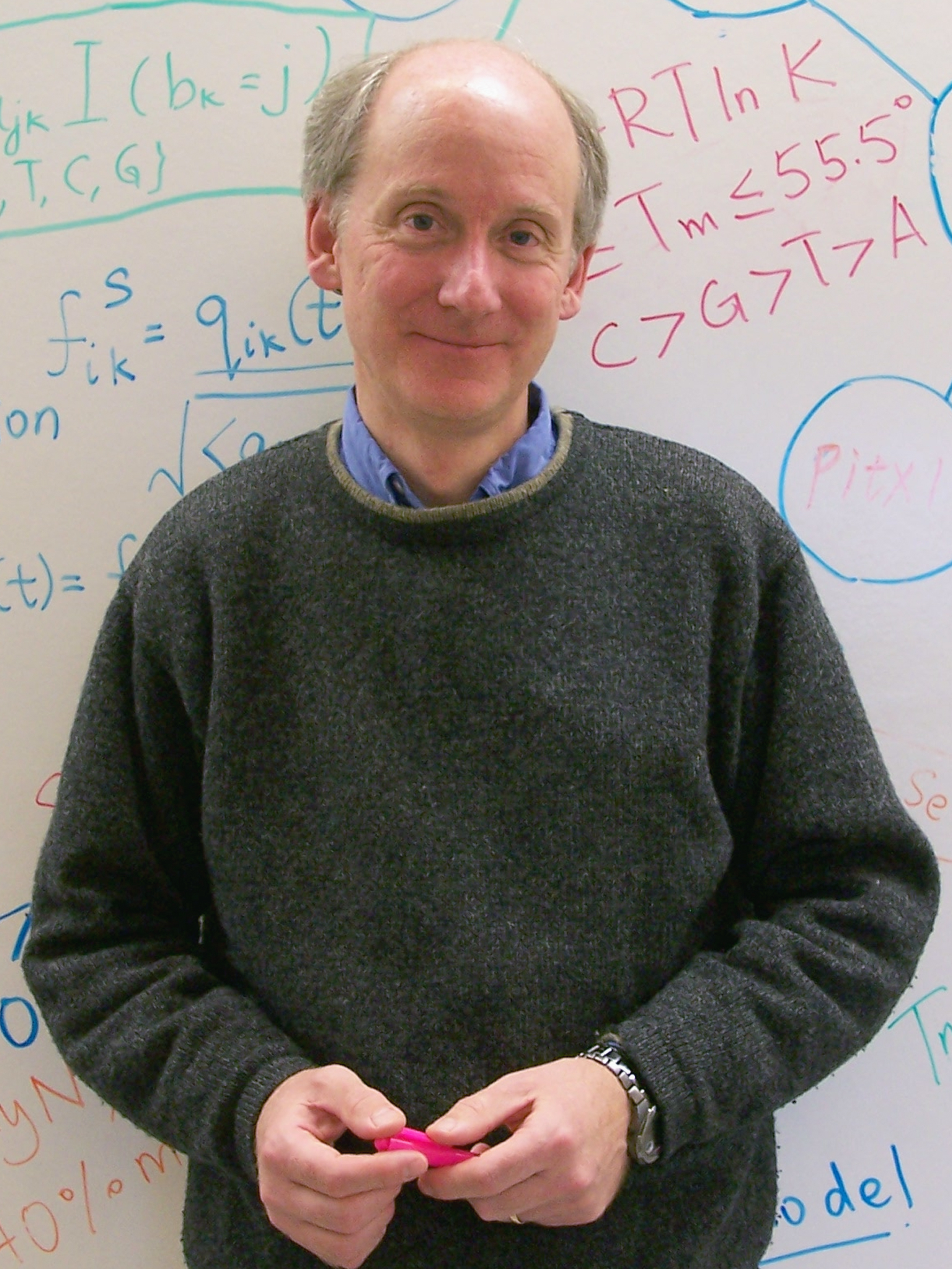 Jamie Thomson